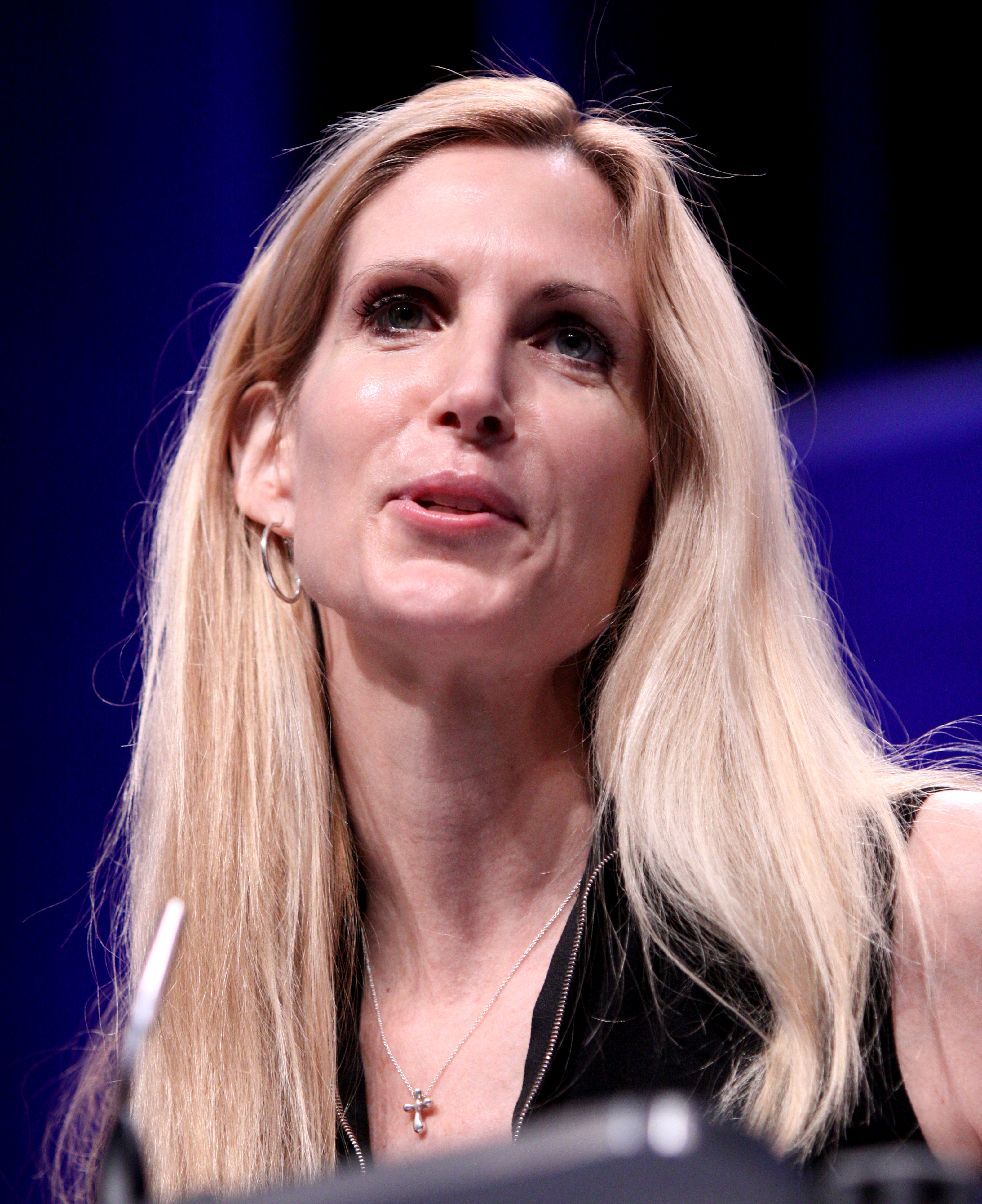 Ann Coulter speaking at CPAC in Washington D.C. on February 12, 2011.